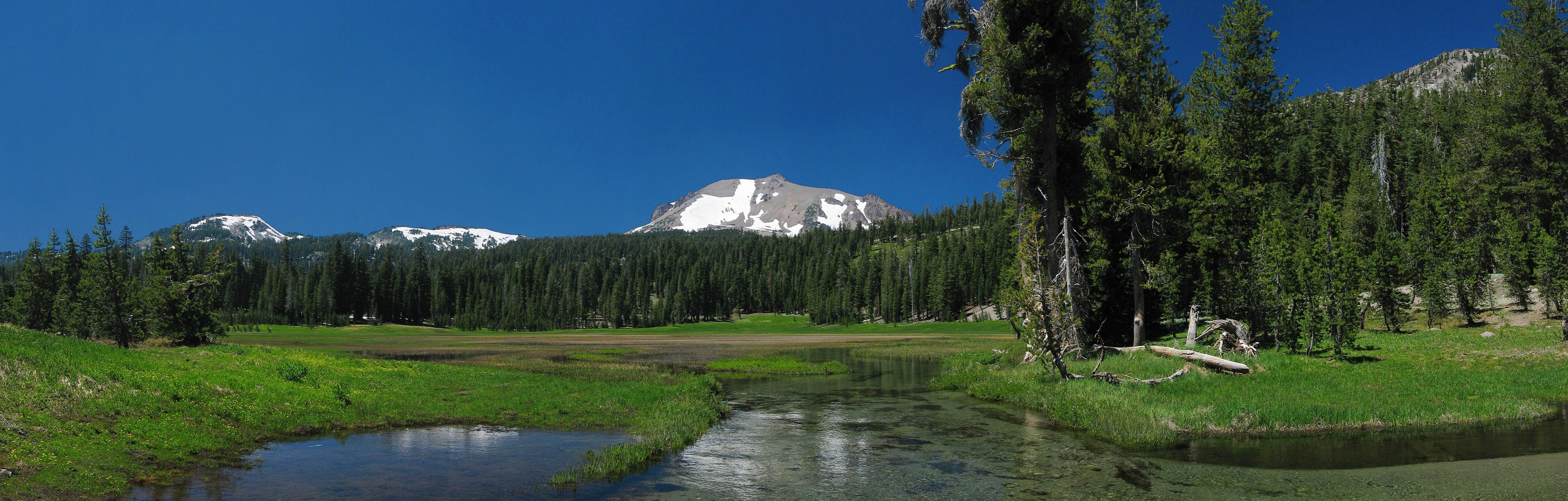 Edit of: en::Image:USA Lassen NP Kings Creek CA edit2.jpg Edit by User:Fcb981